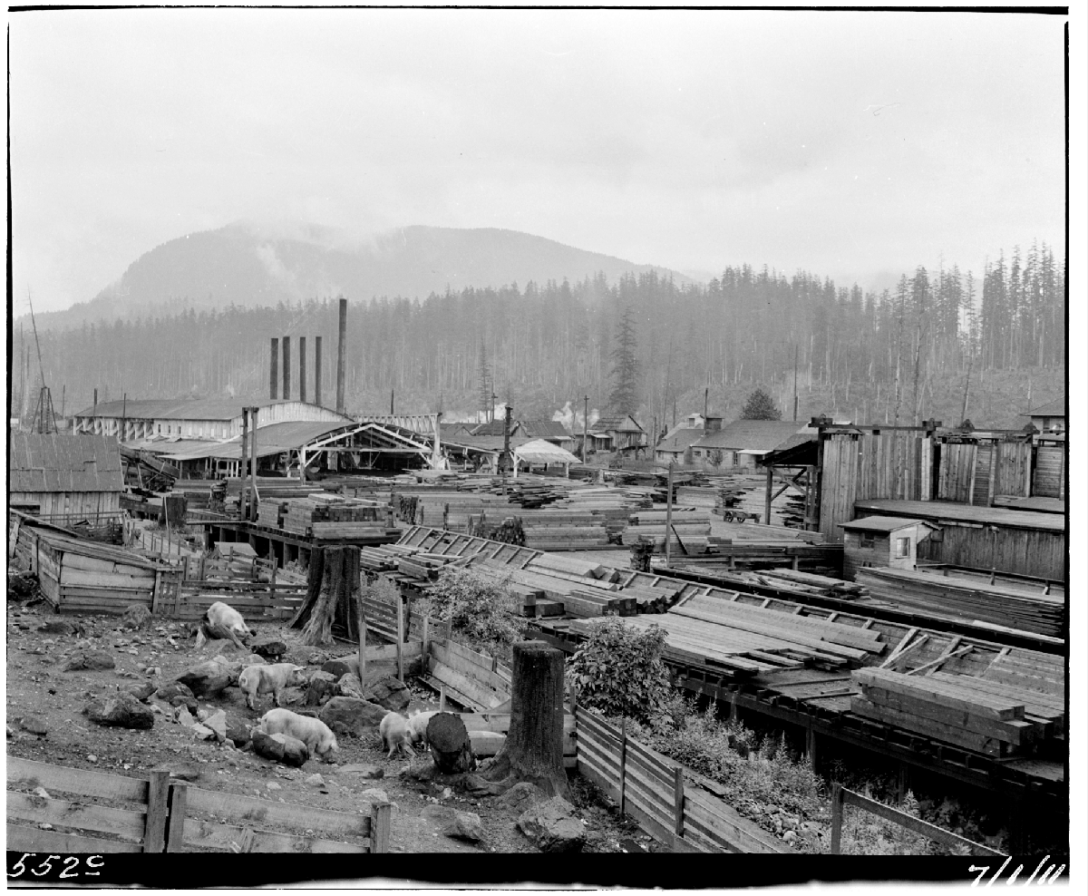 Stockyards and sawmill at Barneston, Washington, U.S. 1911.